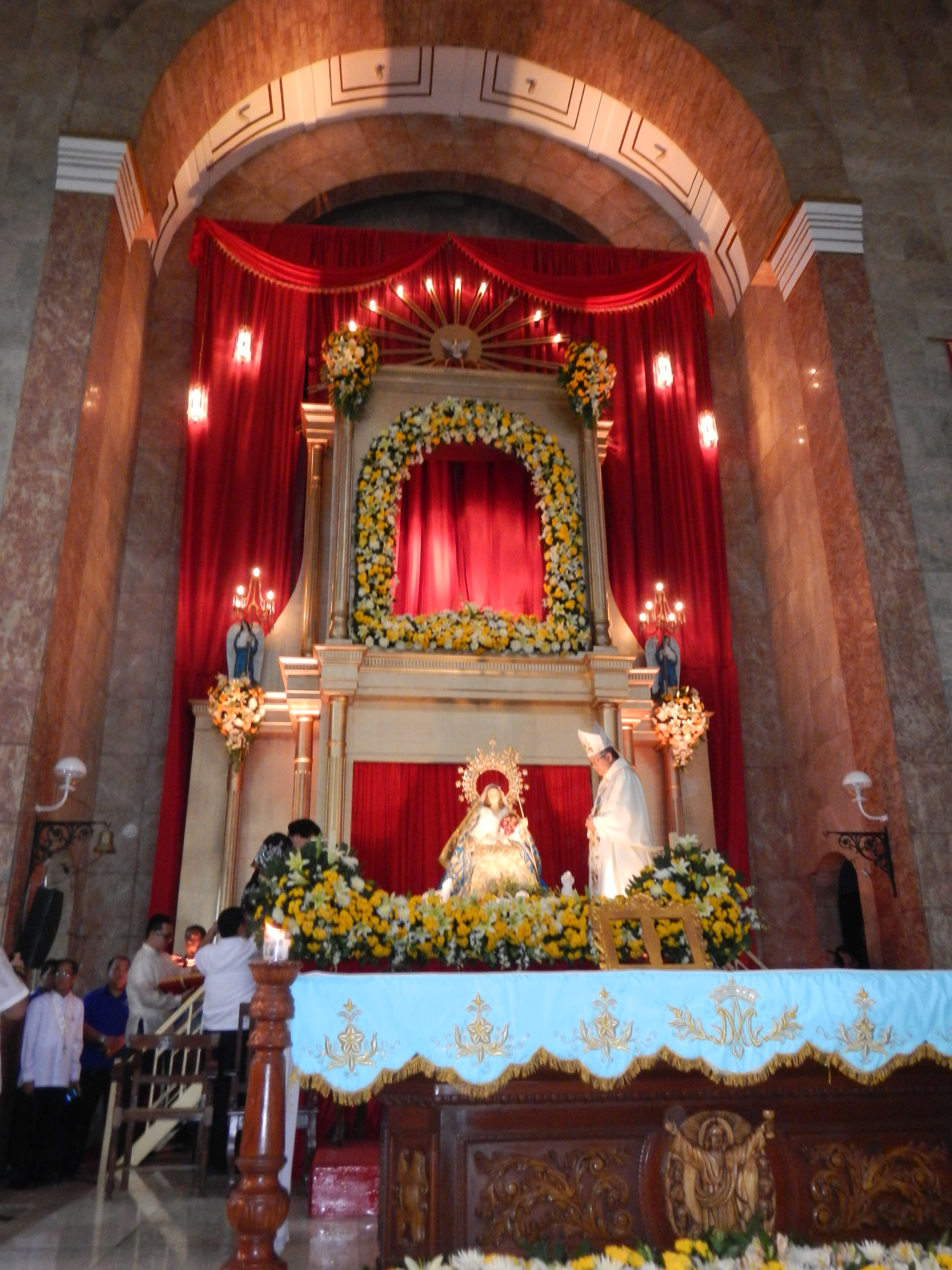 [ La Divina Pastora's 50th Coronation Anniversary] (April 26, 1964-2014, 2:00 pm, La Virgen Divina Pastora, Crowned Marian images in the Philippines by Decree of Pope Paul VI, the reenactment of the canonical coronation, of the Statue of The Divine Shepherdess in Gapan City, Nueva Ecija, the 50th Canonical Coronation Anniversary of La Virgen Divina Pastora, the object of the biggest Marian pilgrimage in Central Luzon; led by Parish Priest, Father Antonio Mangahas, in the Divine Shepherdess Shrine in Gapan, Nueva Ecija built in mid-1800s, Gapan’s brick-and-adobe church Three Kings Parish; with 5 bishops, 50 priests of the Roman Catholic Diocese of Cabanatuan, Diocese of San Jose, and Batanes, concelebrated the Golden Jubilee Mass officiated by Cabanatuan Bishop Sofronio Bancud, including CBCP President, Lingayen-Dagupan Archbishop Socrates B. Villegas, San Jose Bishop Roberto C. Mallari, Tarlac Bishop Florentino F. Cinense and Batanes Bishop Camilo Gregorio).